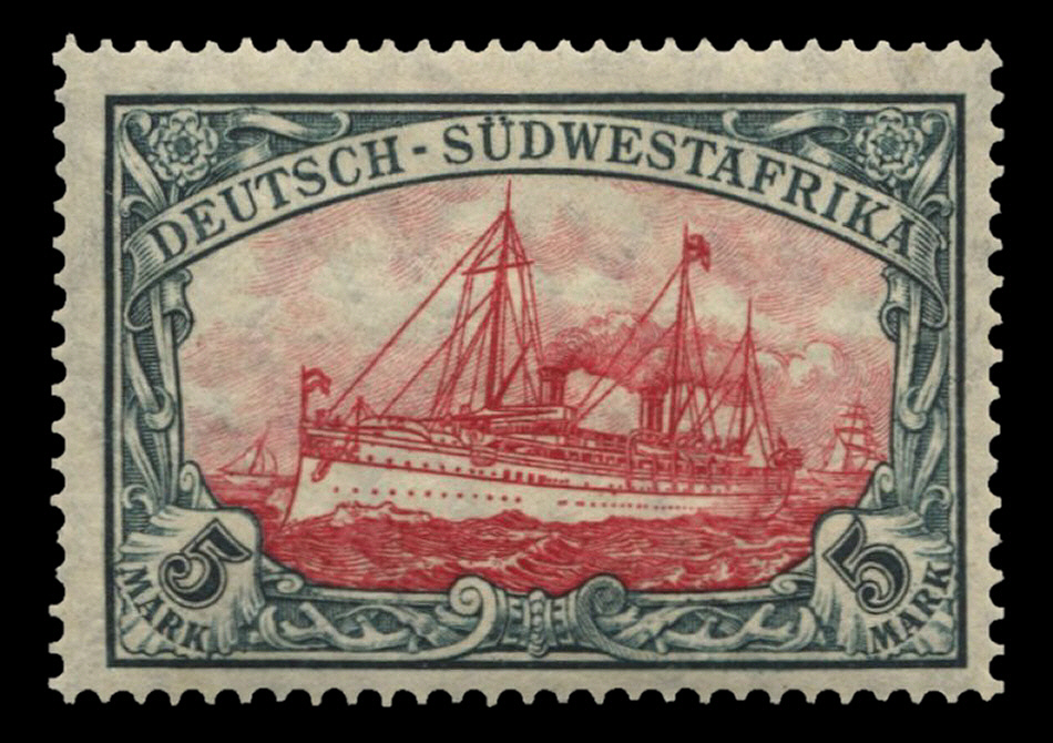 stamp series for German Colonies Ausgabepreis: 5 Mark First Day of Issue / Erstausgabetag: Januar 1906 Michel-Katalog-Nr: 32 A (Deutsche Kolonie Südwestafrika)